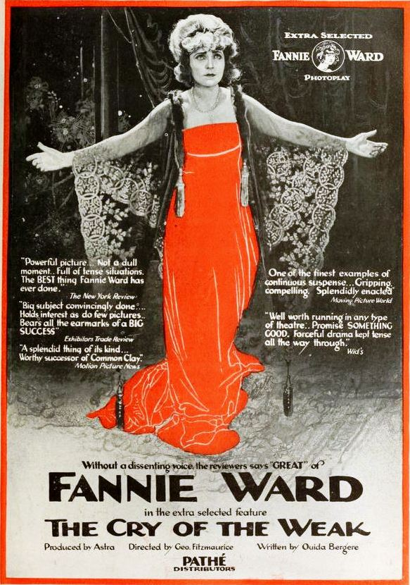 Ad for the American film The Cry of the Weak (1919) with Fannie Ward, in the color inserts after page 1122 of the May 24, 1919 Moving Picture World.